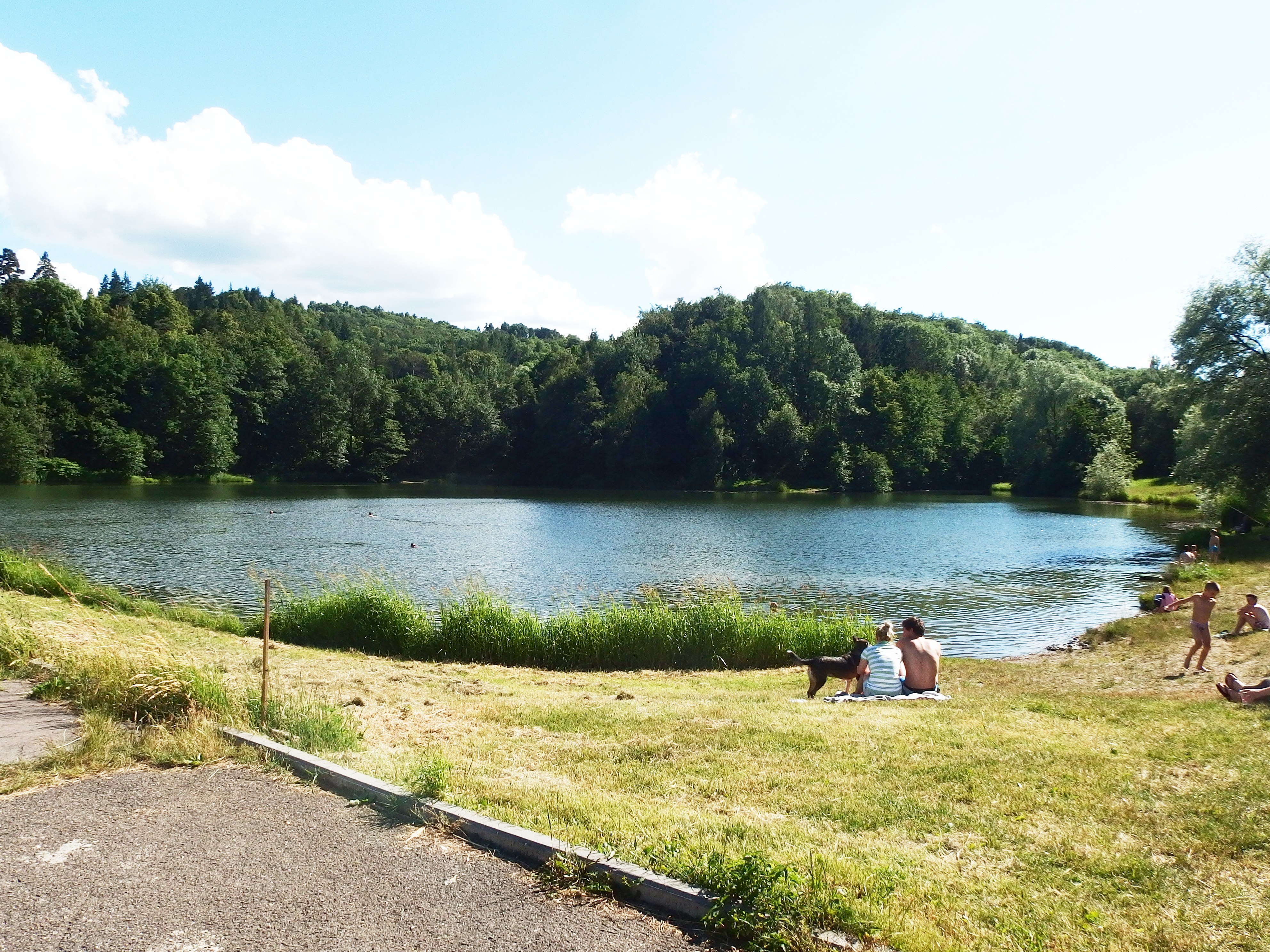 Nový Jičín, Czech Republic, part Kojetín.